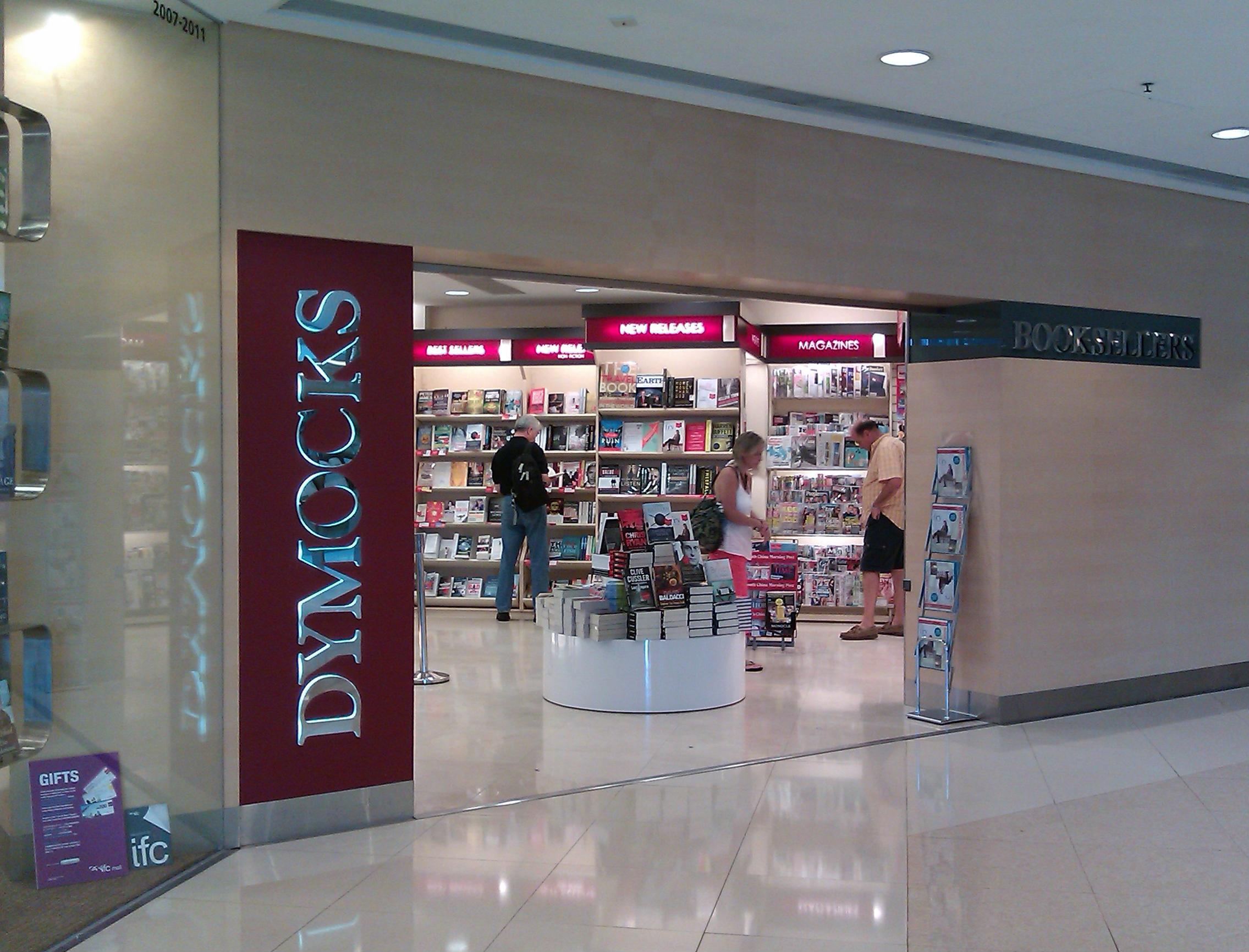 IFC MALL